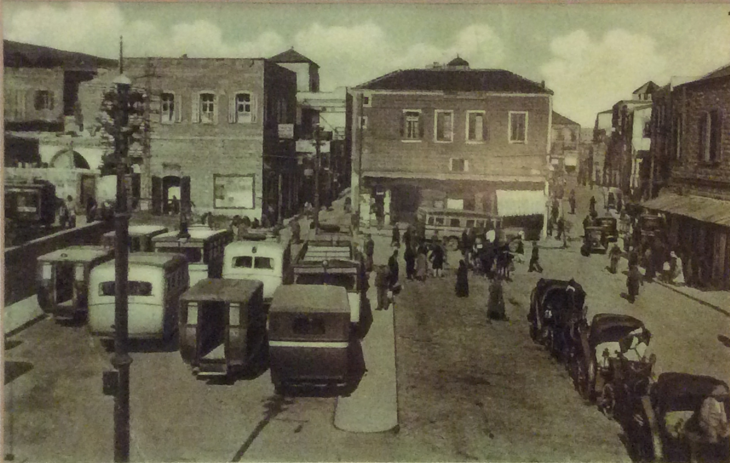 Paris square in Haifa (Israel) in the 1920s